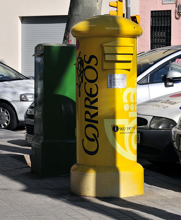 Spanish Correos post box in Barcelona